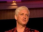 Peter Norvig, Ph.D. from Google in his High Order Bit presentation. This photograph was taken during the 2005 O'Reilly Emerging Technology Conference in San Diego, California at the Westin Horton Plaza Hotel.